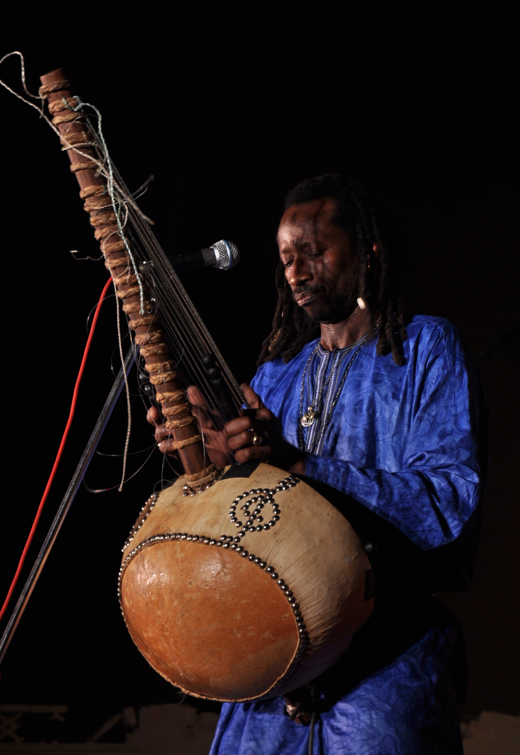 Solo Cissokho) is a kora player from Senegal. He is a charismatic live performer and one of the few champions of the less-known and rhythmically rocking kora repertoire from Casamance in southern Senegal.